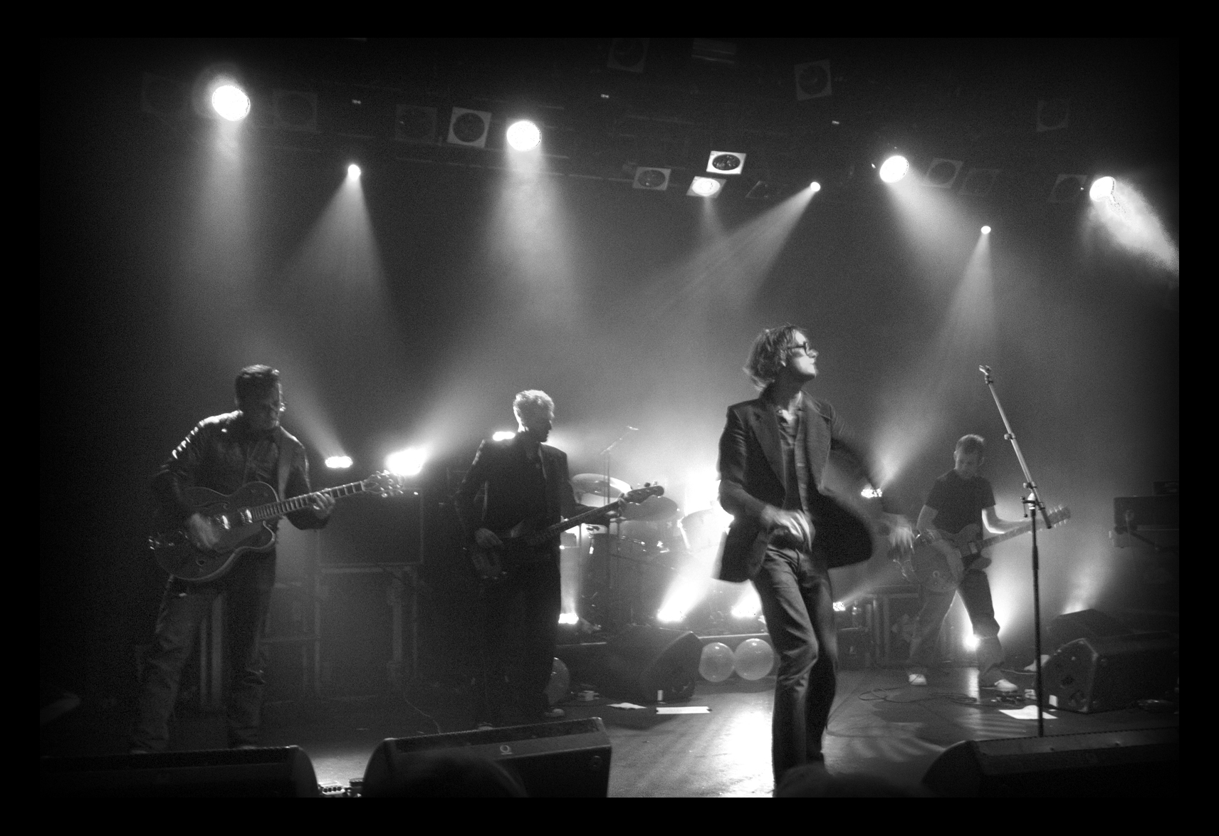 Photo of musician Jarvis Cocker in concert.